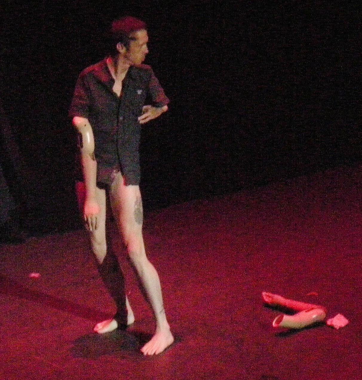 Mat Fraser in Coney Island Apocalypse (properly The Four Strippers of the Apocalypse, but retitled for Bumbershoot, apparently due to an odd piece of prudery), featuring several avant garde New York burlesque performers at the Bagley Wright theater during Bumbershoot 2008, Seattle Center, Seattle, Washington. Fraser, who has phocomelia of both arms, did a striptease that included the removal of prosthetic arms.